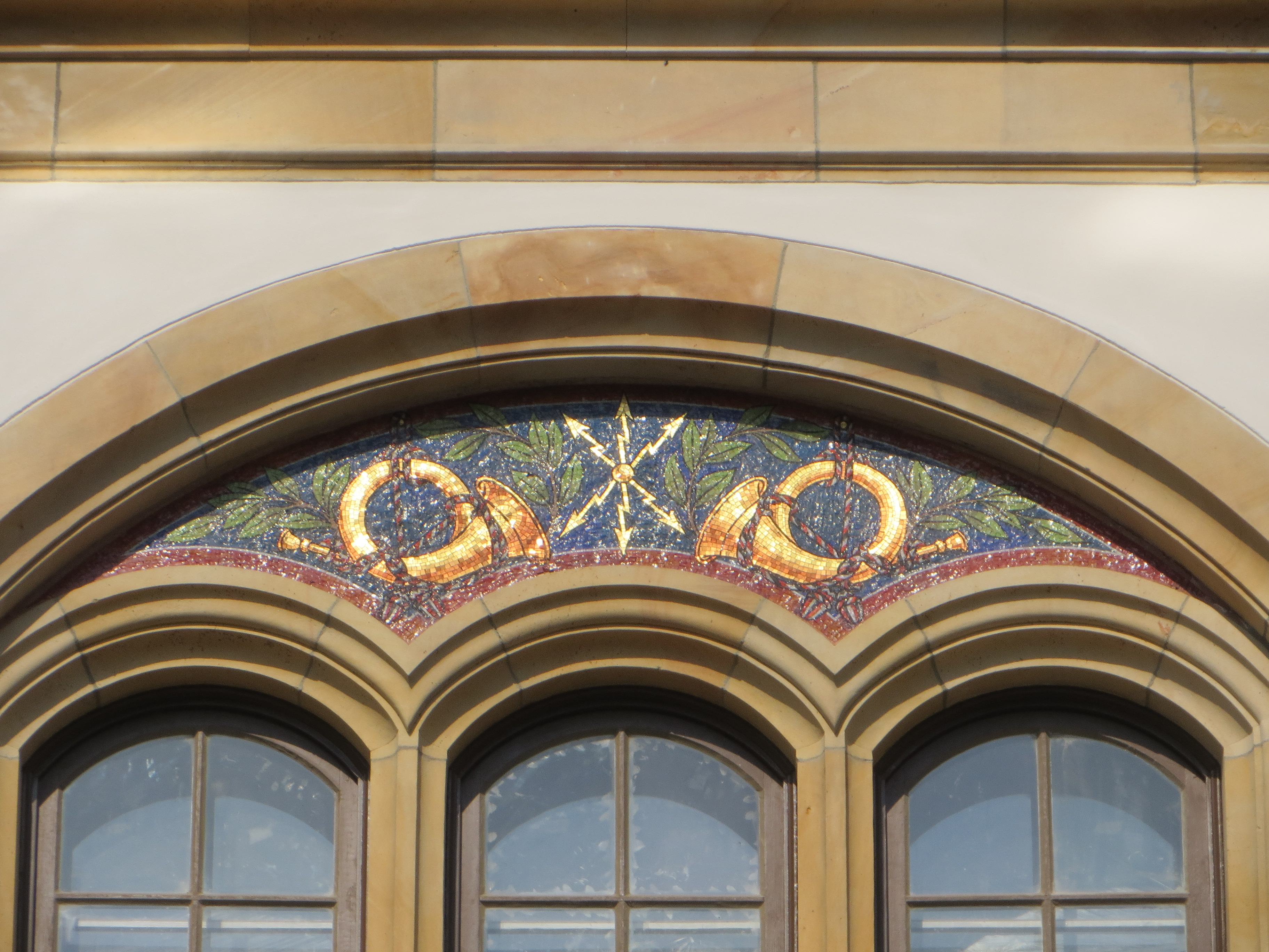 Neustrelitz Schlossstrasse 12/13 (former post office) mosaic